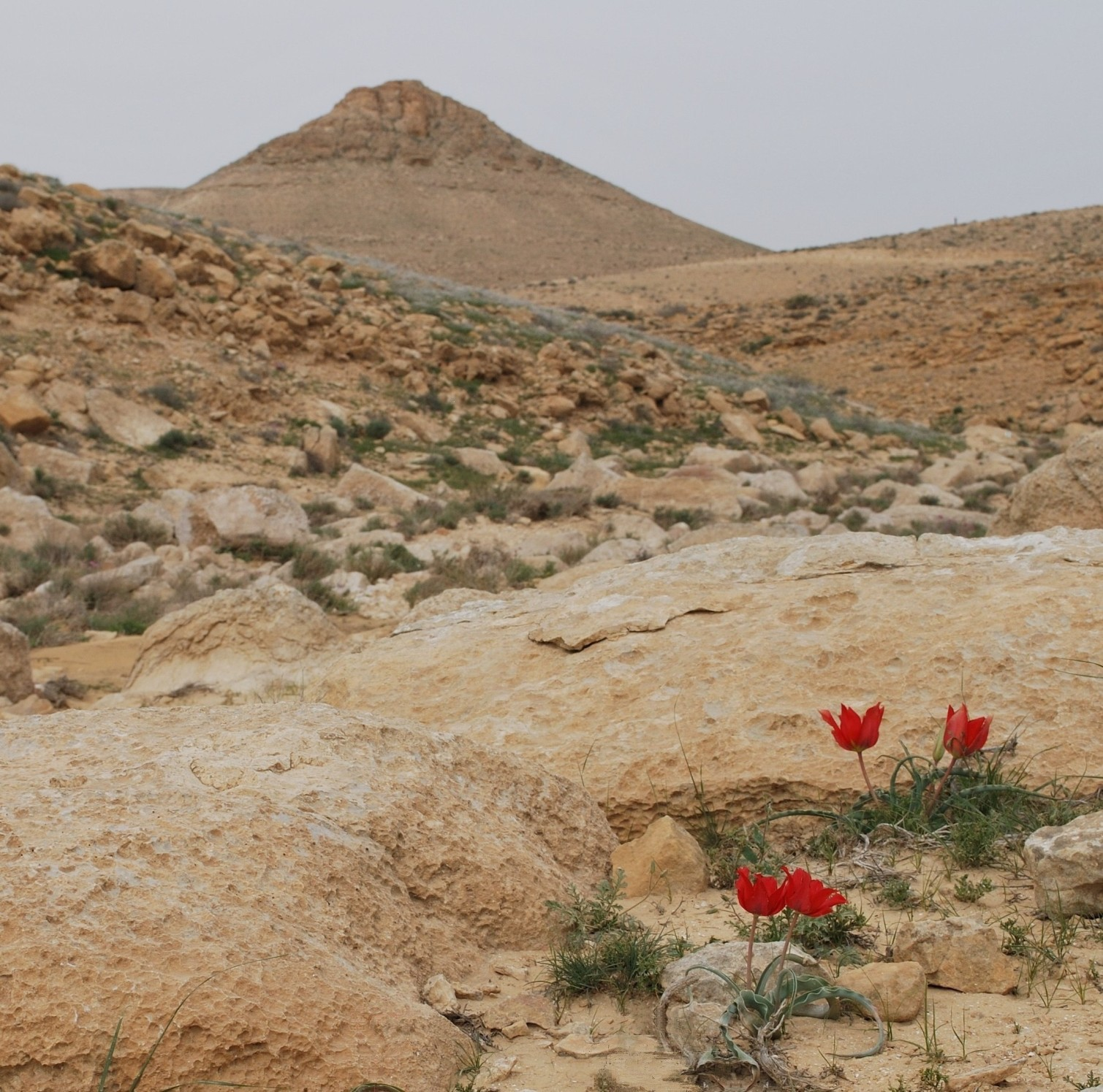 View of Rosh Elot with bloom of Tulipa systola and Erucaria microcarpa, Negev Mountains, Israel, March 5, 2010.